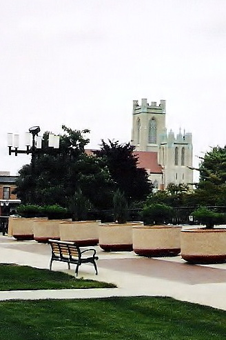 Looking far northeast on St. Mary Cathedral (Lansing, Michigan), shortly before the bridge over Walnut Street, approx. 200 meters from the Michigan State Capitol.